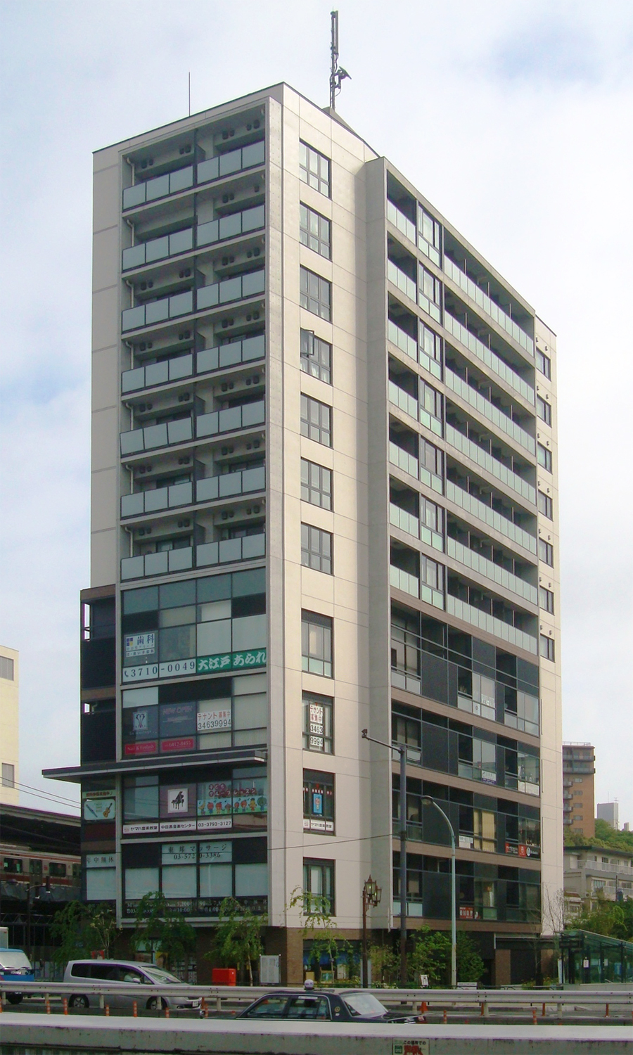 Nakameguro Arena building, Meguro city, Tokyo